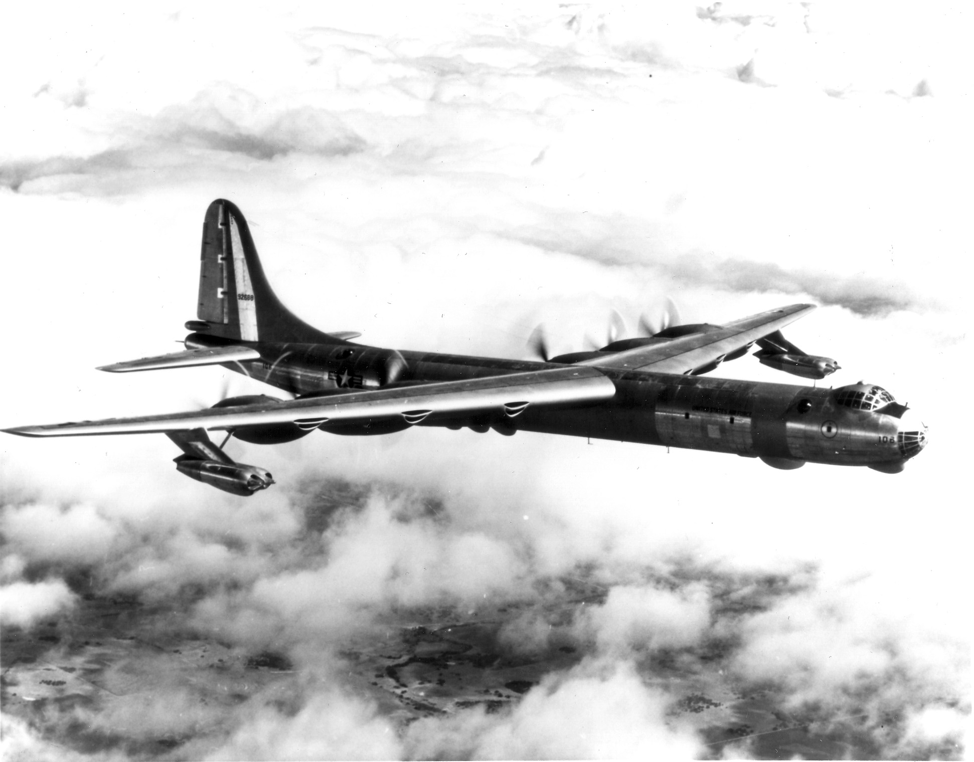 The Convair RB-36D is the jet-augmented version of the intercontinental strategic bomber. The aircraft has four General Electric J-47 jet engines, mounted in pairs under outer wing edges, that supplement six Pratt & Whitney piston engines.